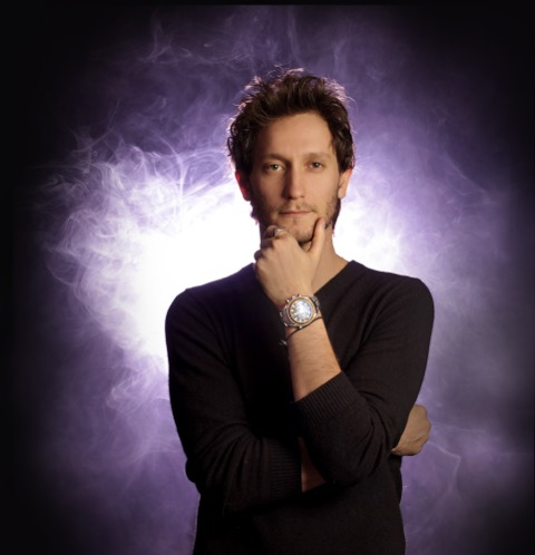 Lior Suchard, Israeli magisian and illusionist